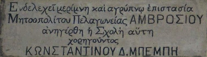 Nizhopole School Insciption 1870